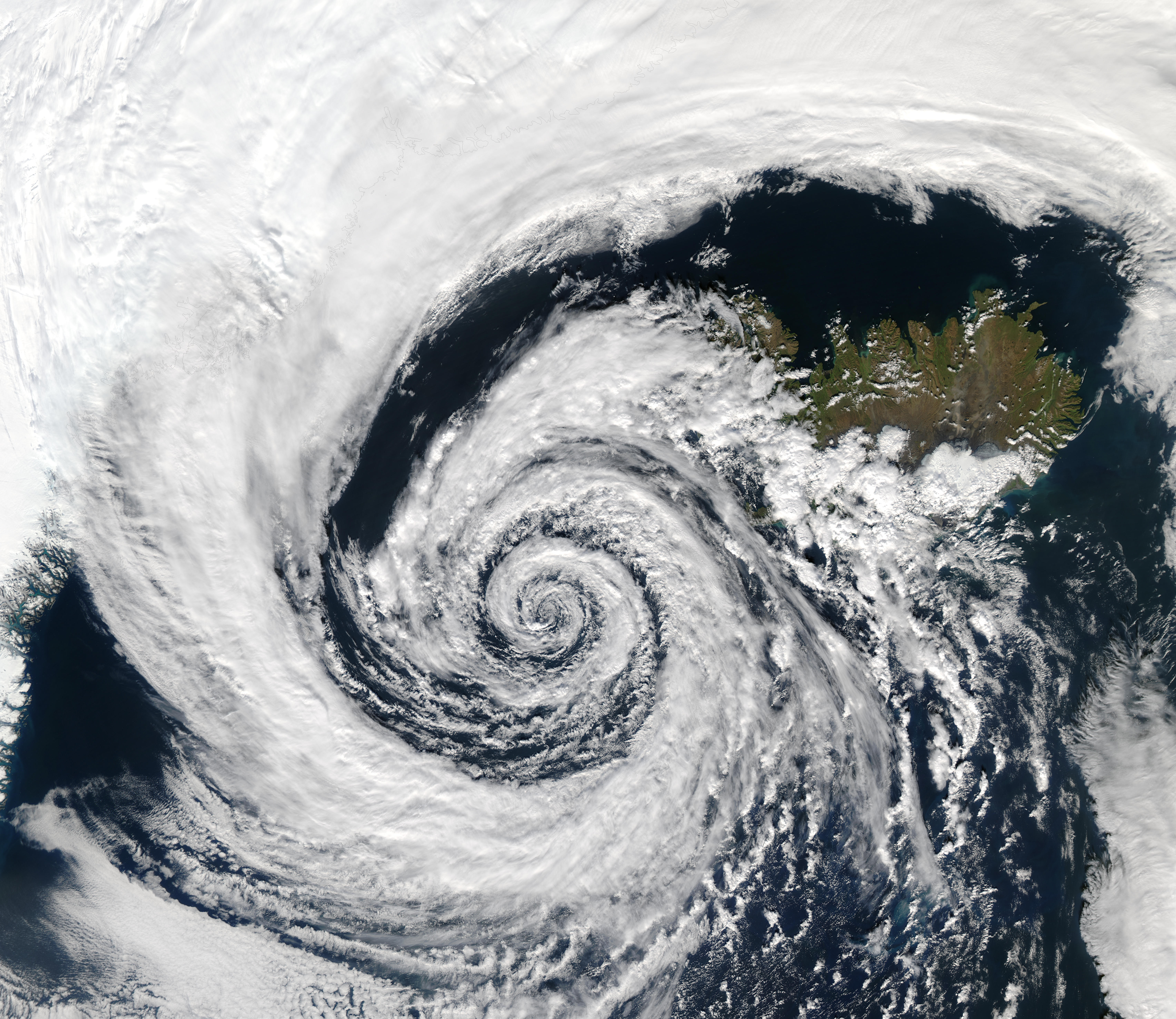 A beautifully-formed low-pressure system swirls off the southwestern coast of Iceland, illustrating the maxim that "nature abhors a vacuum." The vacuum in this case would be a region of low atmospheric pressure. In order to fill this void, air from a nearby high-pressure system moves in, in this case bringing clouds along for the ride. And because this low-pressure system occurred in the Northern Hemisphere, the winds spun in toward the center of the low-pressure system in a counter-clockwise direction; a phenomenon known as the Coriolis force (in the Southern Hemisphere, the Coriolis force would be manifested in a clockwise direction of movement). The clouds in the image resembled pulled cotton and lace as they spun in a lazy hurricane-like pattern. This huge system swirled over the Denmark Strait in between Greenland and Iceland. The image was taken by the Aqua MODIS instrument on September 4, 2003.